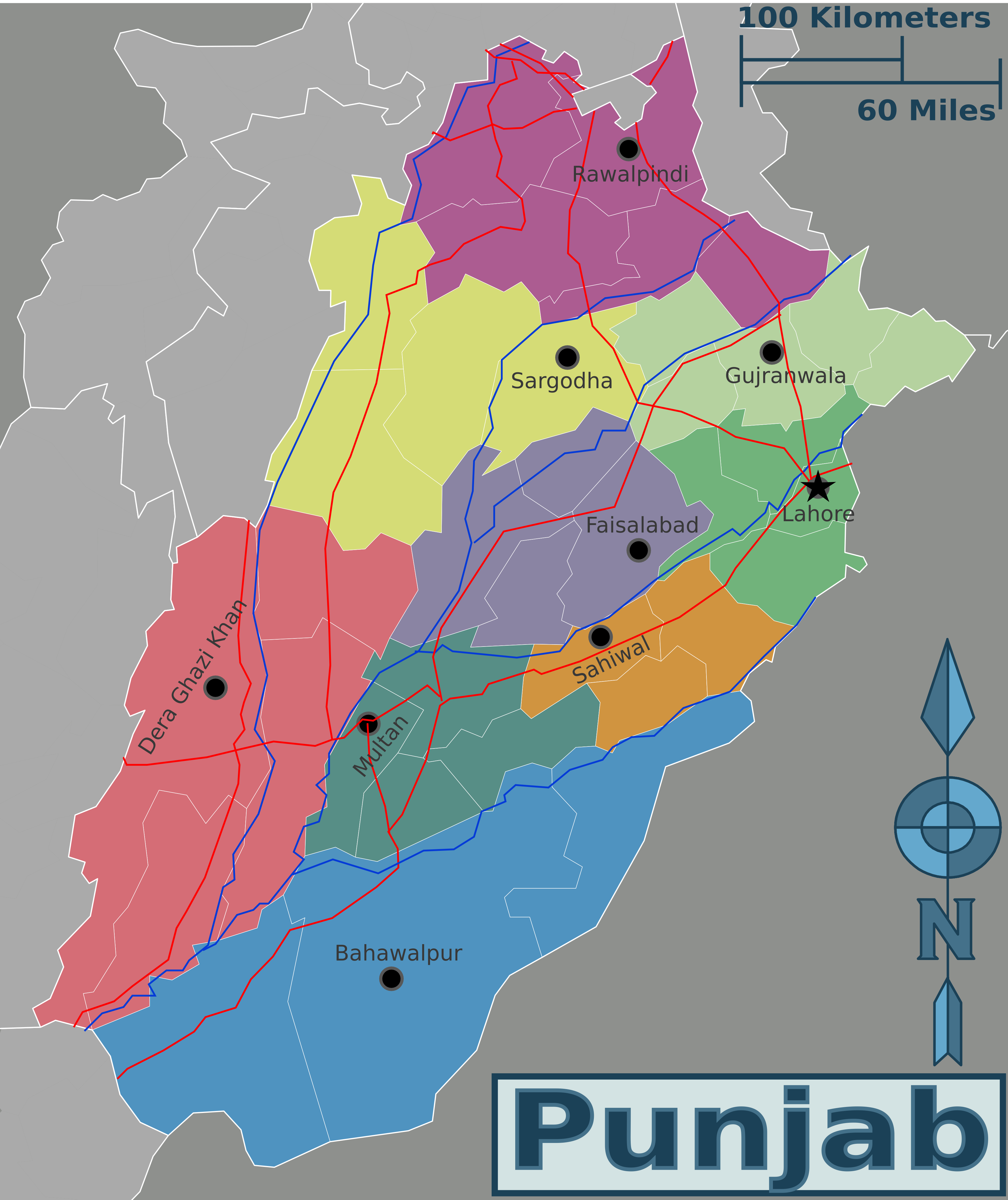 Divisions of Punjab (Pakistan)